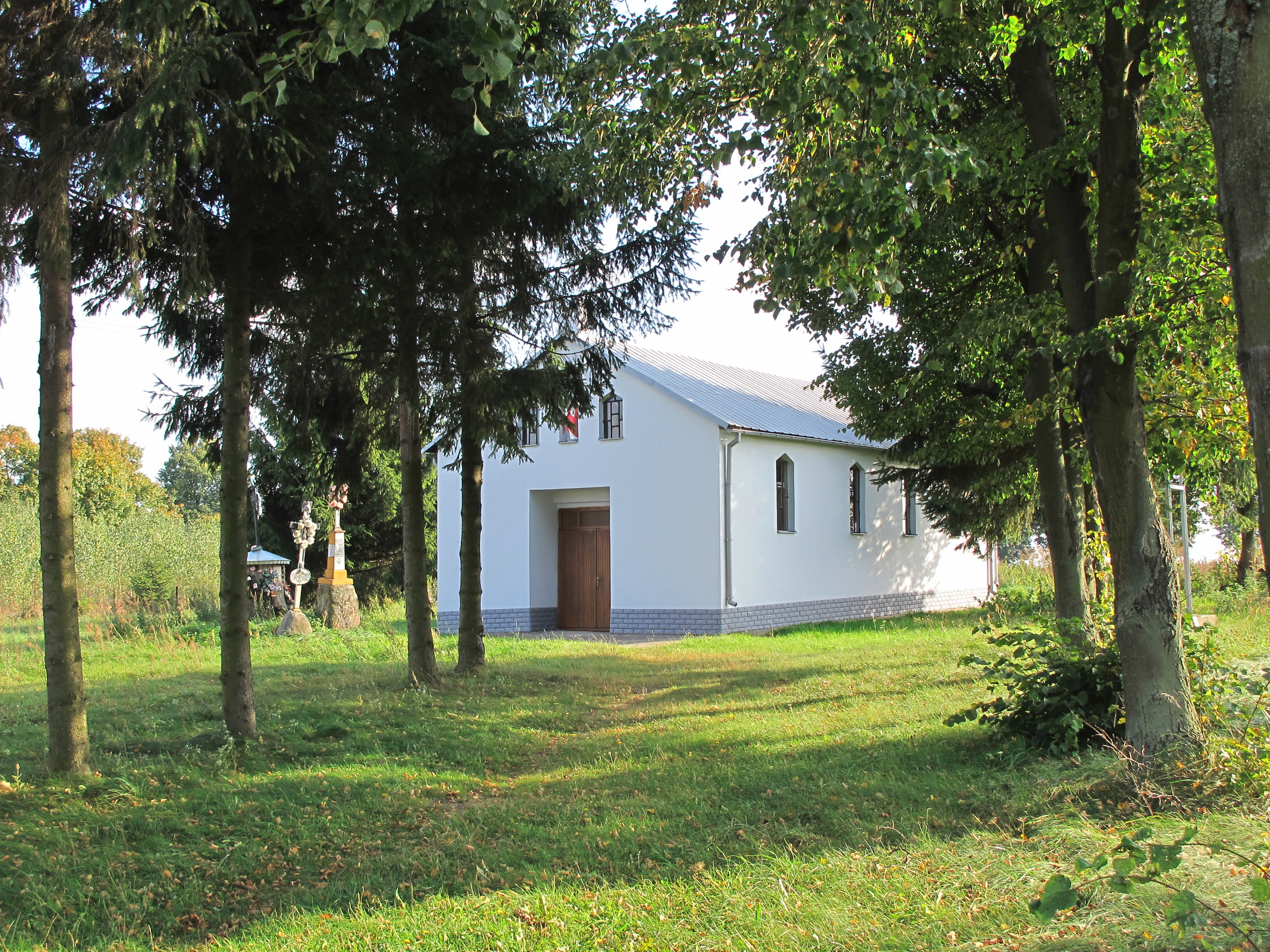 Sacred Heart of Jesus chapel from 1989 in Karpowicze, gmina Suchowola, podlaskie, Poland